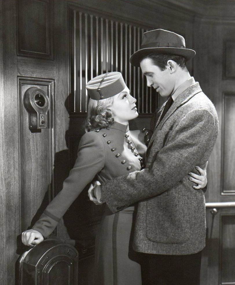 Lana Turner and Jimmy Stewart in Ziegfeld Girl